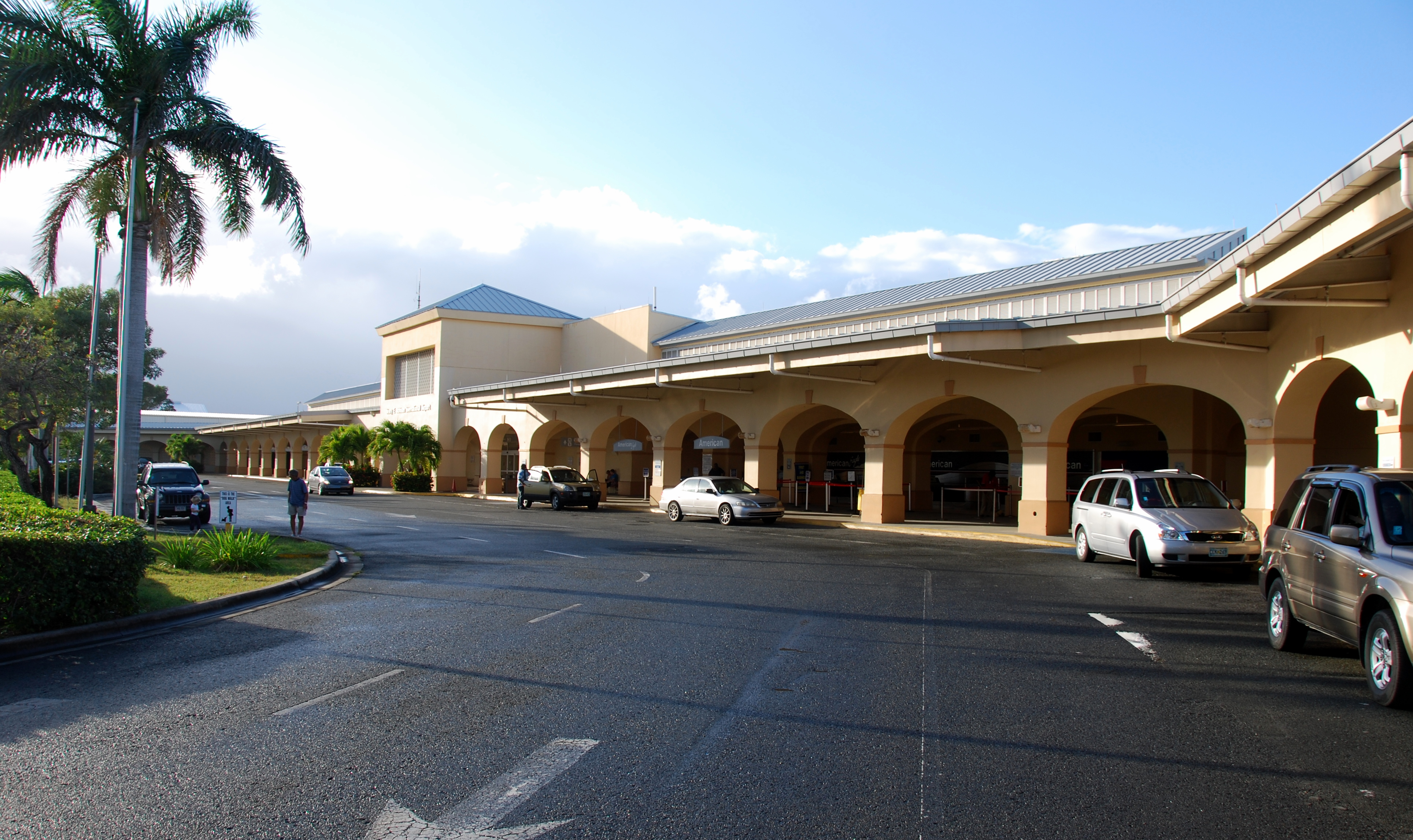 Henry E. Rohlsen Airport terminal